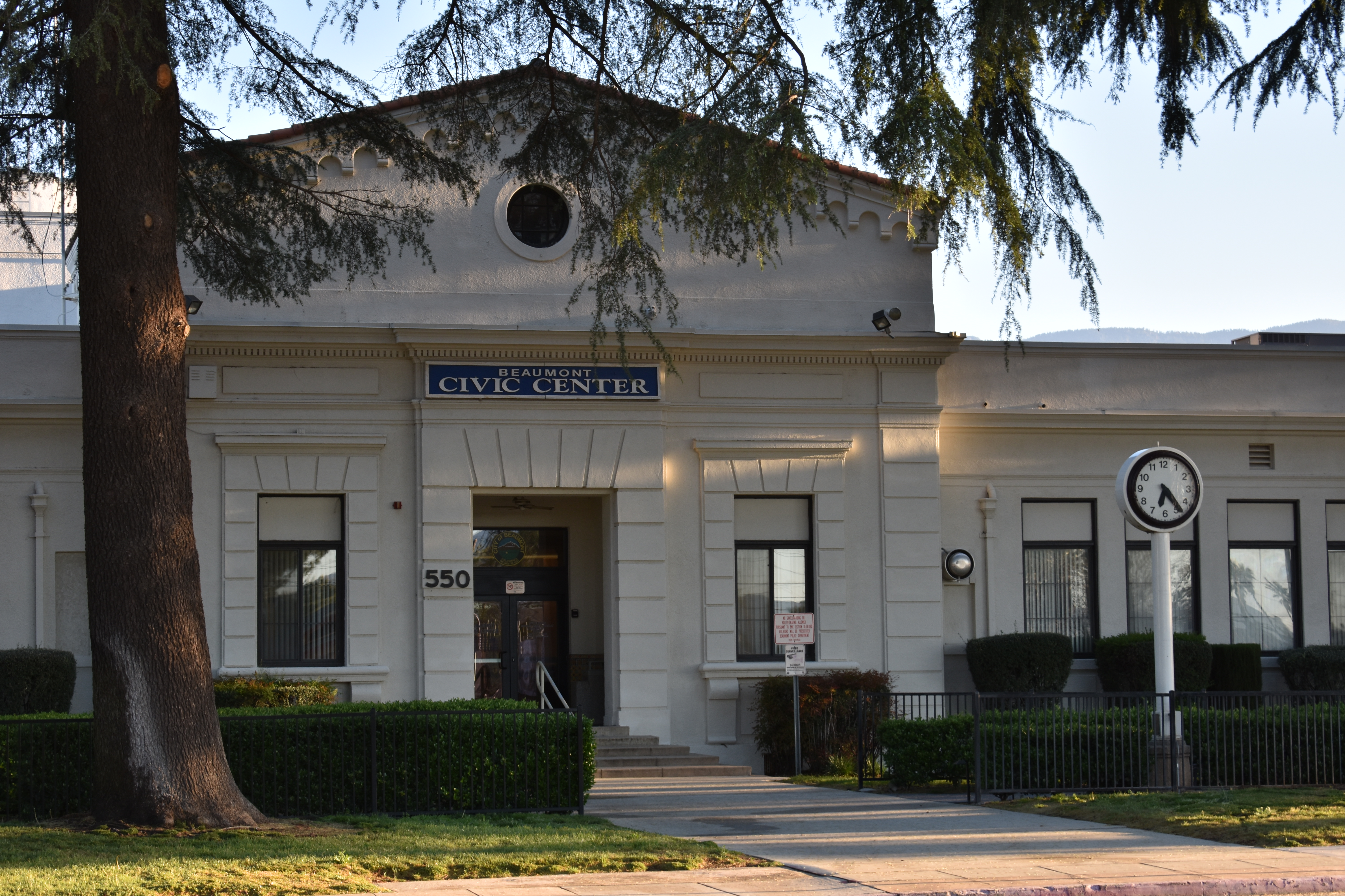 Southern entrance to the Civic Center of Beaumont, California